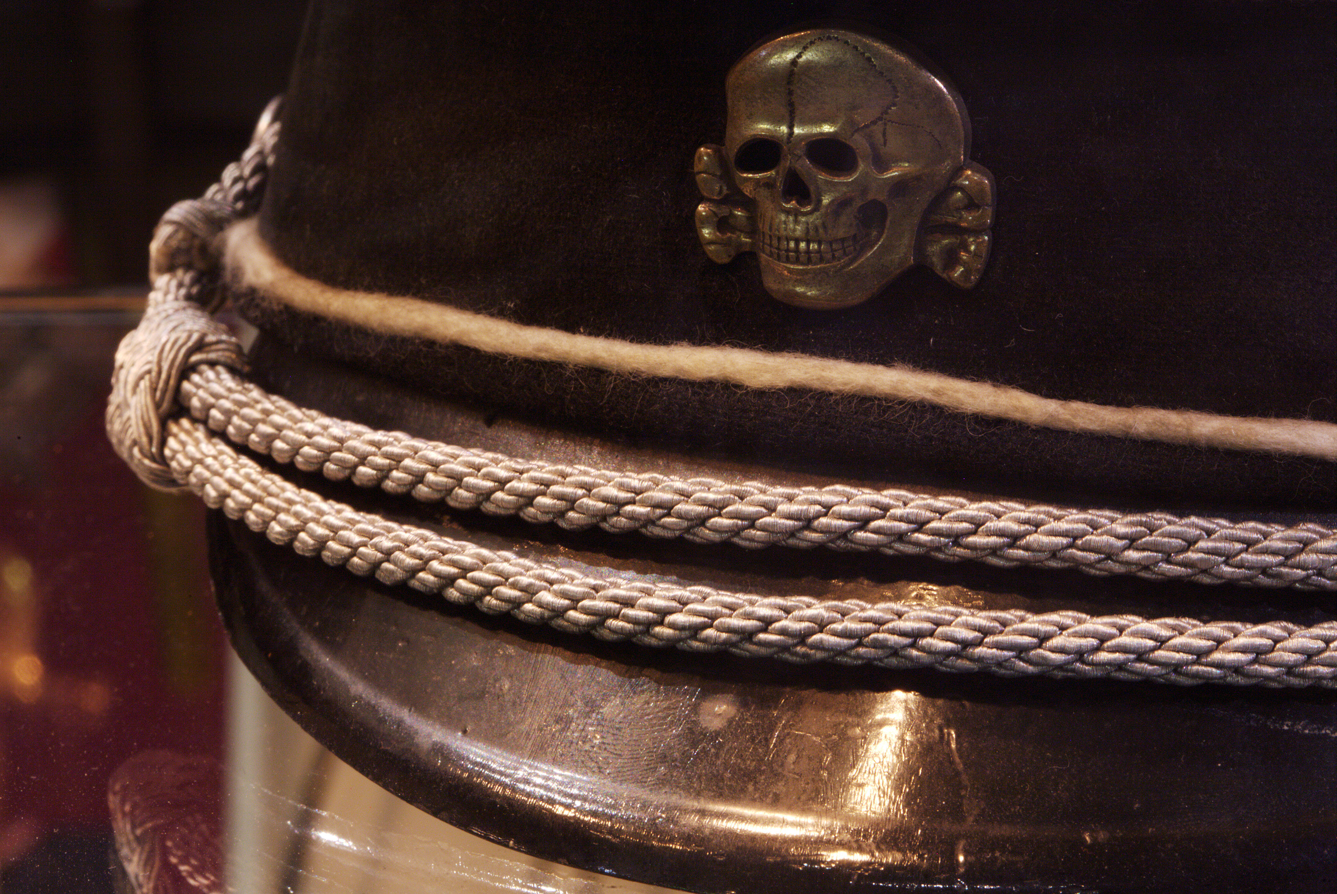 Badge "SS-Totenkop", on SS-offizer´s cap (1934-1945).